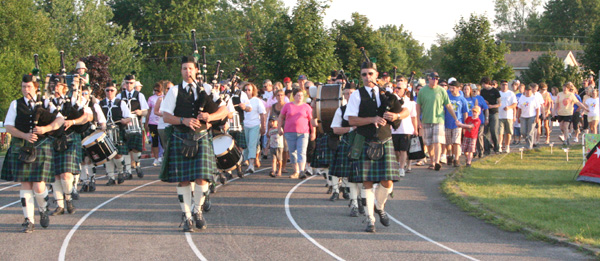 The Kincardine Pipe Band Leads the Relay for Life